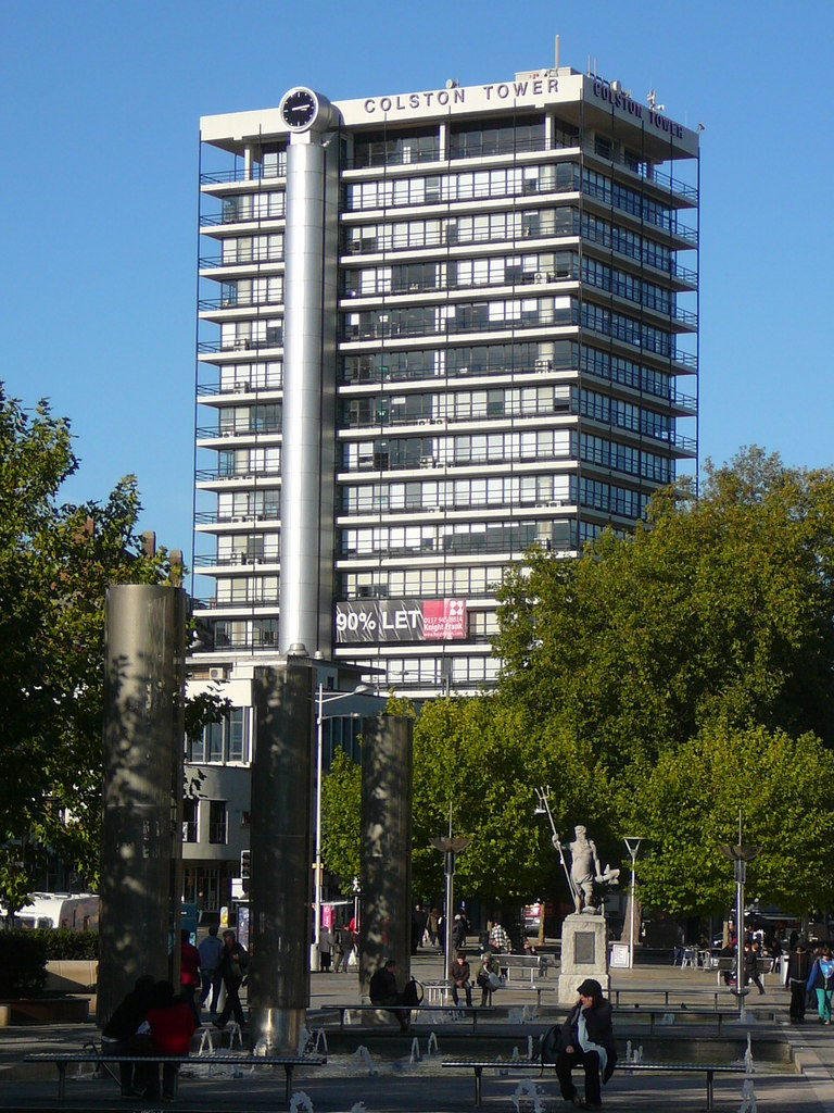 Colston Tower, Bristol Centre